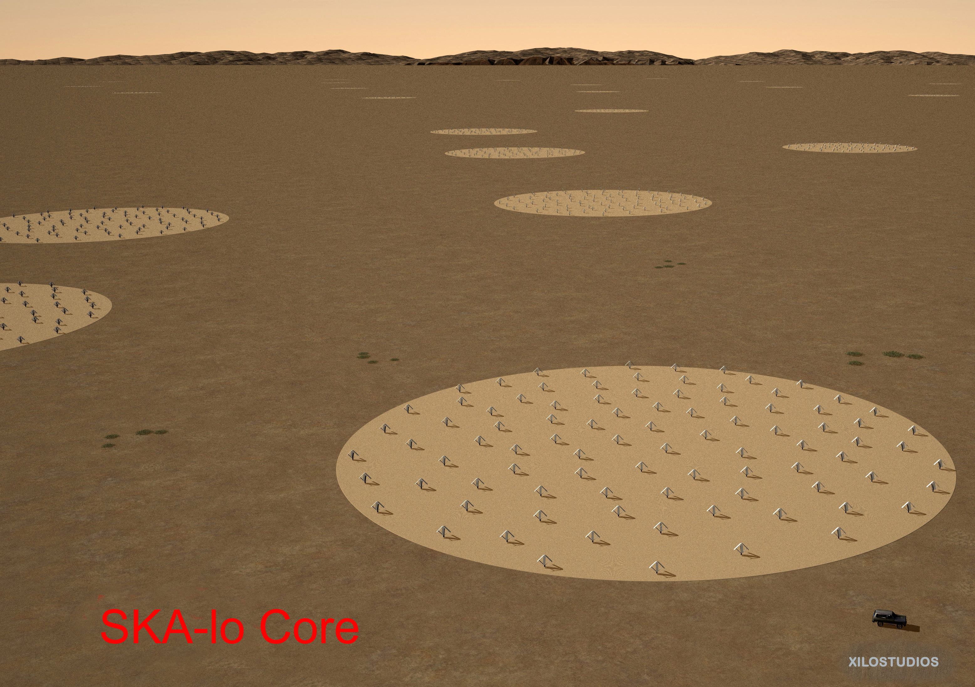 Artist's impression of the central 10 km diameter core of SKA low band stations.